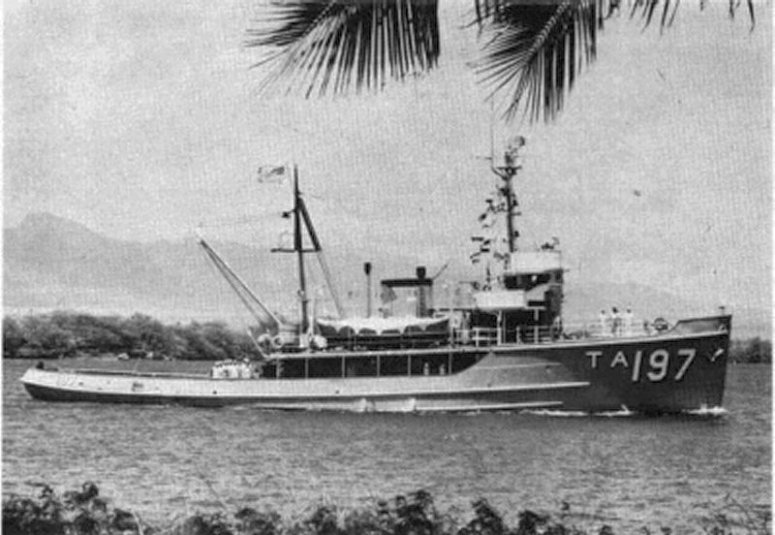 USS Sunnadin (ATA-197) underway at Pearl Harbor, HI., date unknown. US Navy photo from "All Hands" magazine, December 1966